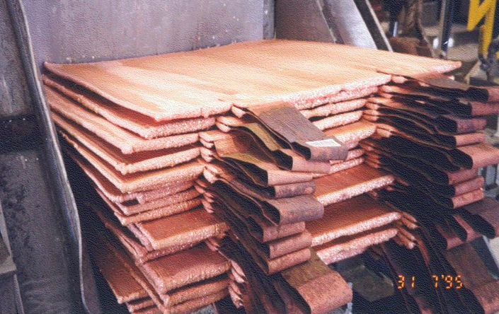 This photograph shows cathode copper produced using copper starter sheets in the electrolytic cells of a copper refinery.